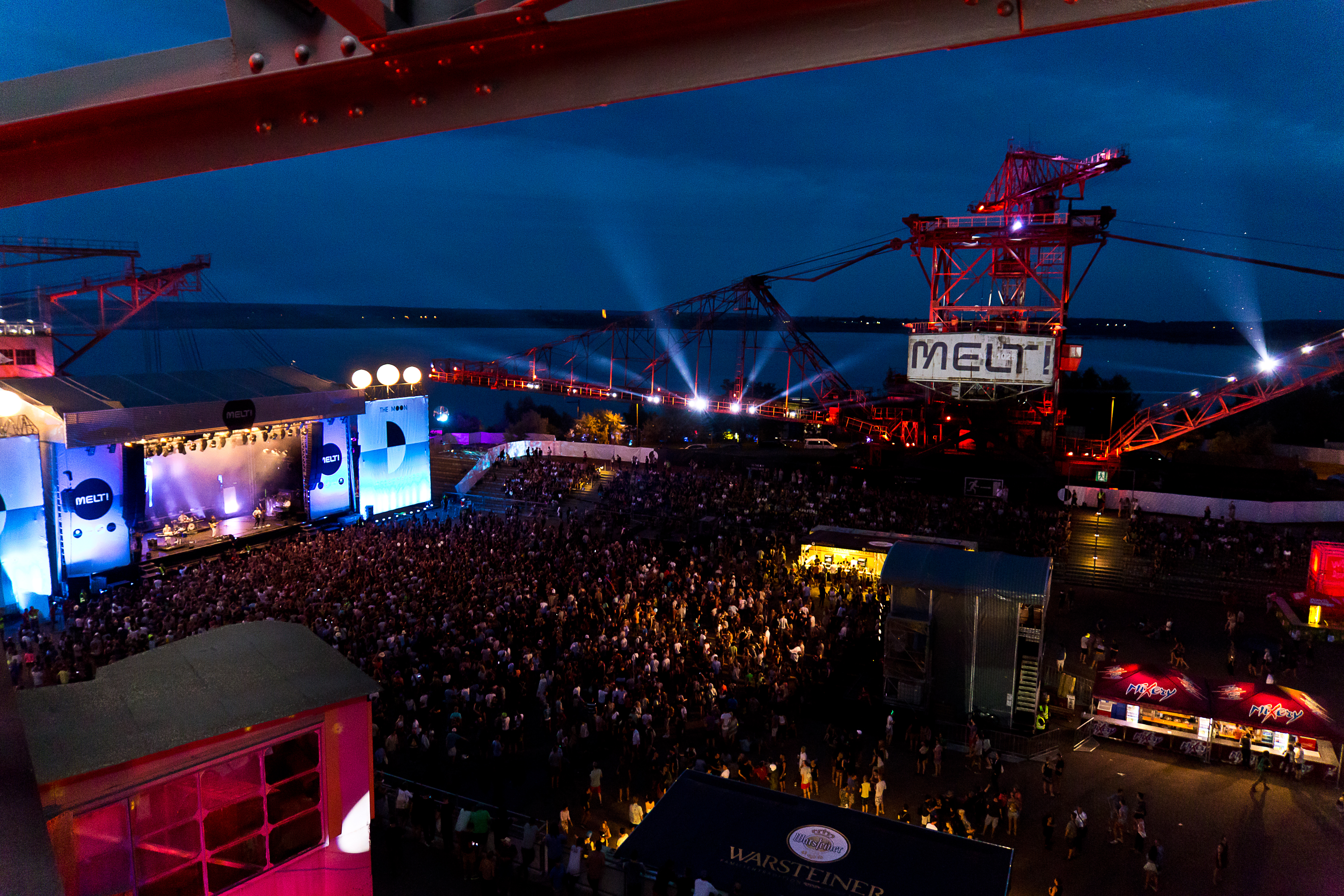 Impressions from Melt! festival 2015 in Ferropolis/Germany.